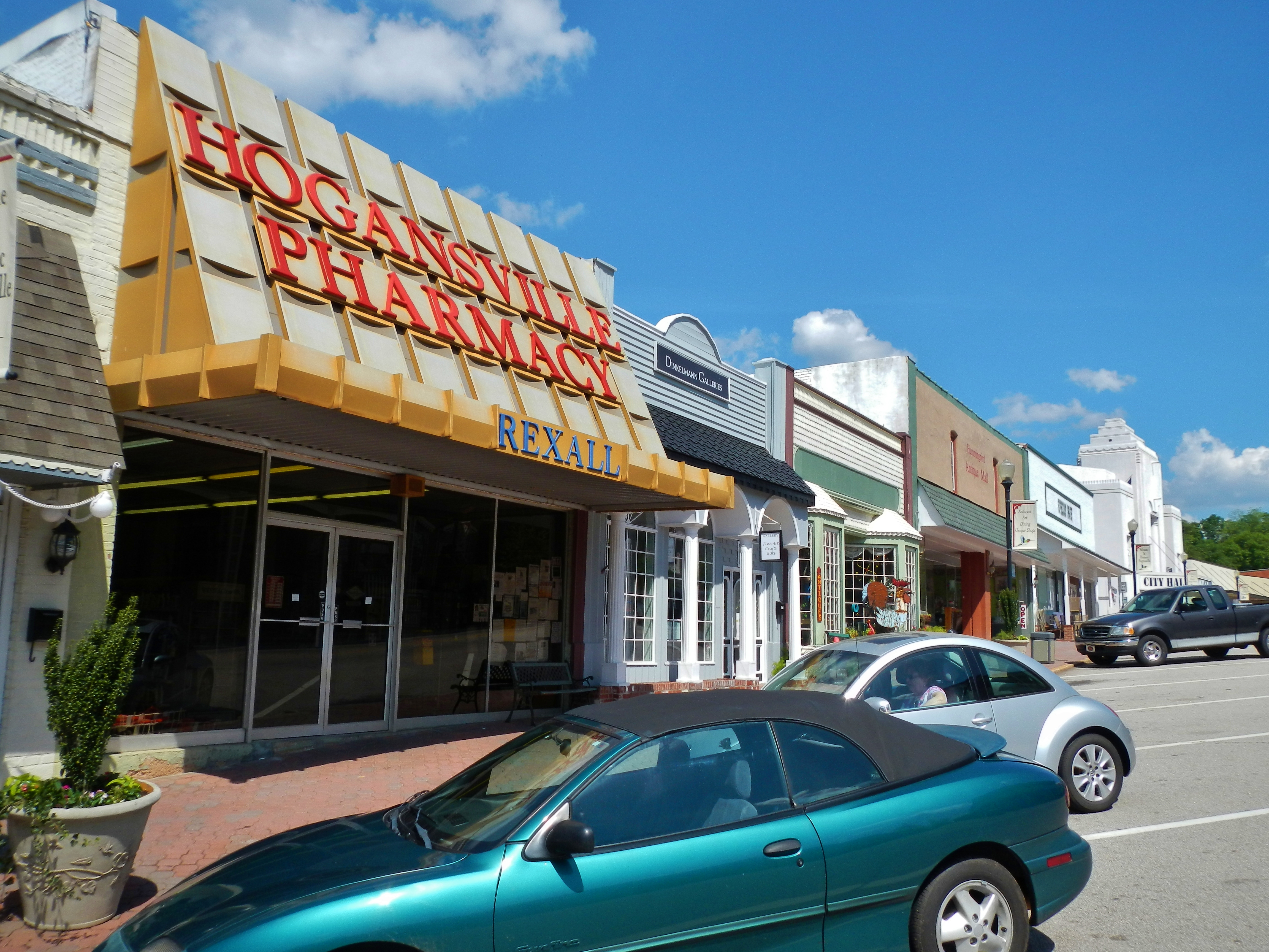 This is a photo of E. Main Street in Hogansville, Georgia.